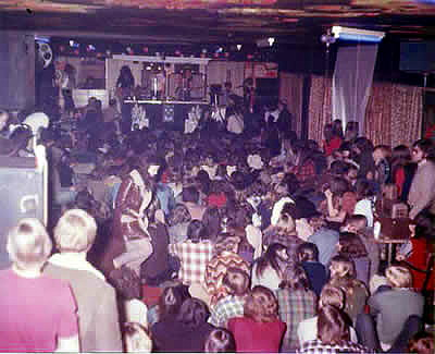 Concert at The Upstage Club.